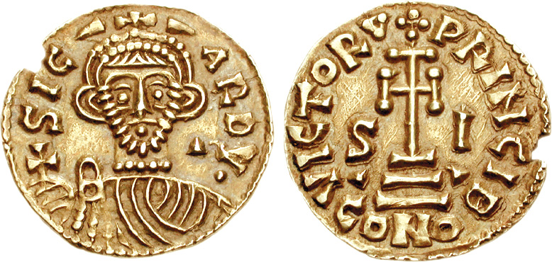 Lombards, Beneventum (nowdays Benevento. Sicard. AD 832-839. Pale AV Solidus (3.64 g, 11h). SIC– –ARDV•, crowned and draped facing bust, holding globus cruciger; crown topped with cross; wedge in right field VITOR• +PRINCI, cross potent on two steps; S-I, each with wedges beneath, across fields; CONOB (B retrograde). CNI XVIII 1 (electrum); BMC Vandals 3; MEC 1, 1108. Good VF, toned, slightly ragged edge. From the Marc Poncin Collection.